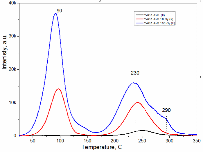 TSL curves